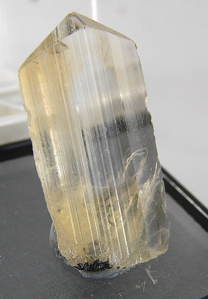 Anglesite Locality: Touissit, Touissit District, Oujda-Angad Province, Oriental Region, Morocco (Locality at ) Size: 2.8 x 1.6 x 0.5 cm. A superb, gemmy crystal of Moroccan anglesite - complete all around, with a perfect termination - just a bit of edge wear on the sides.